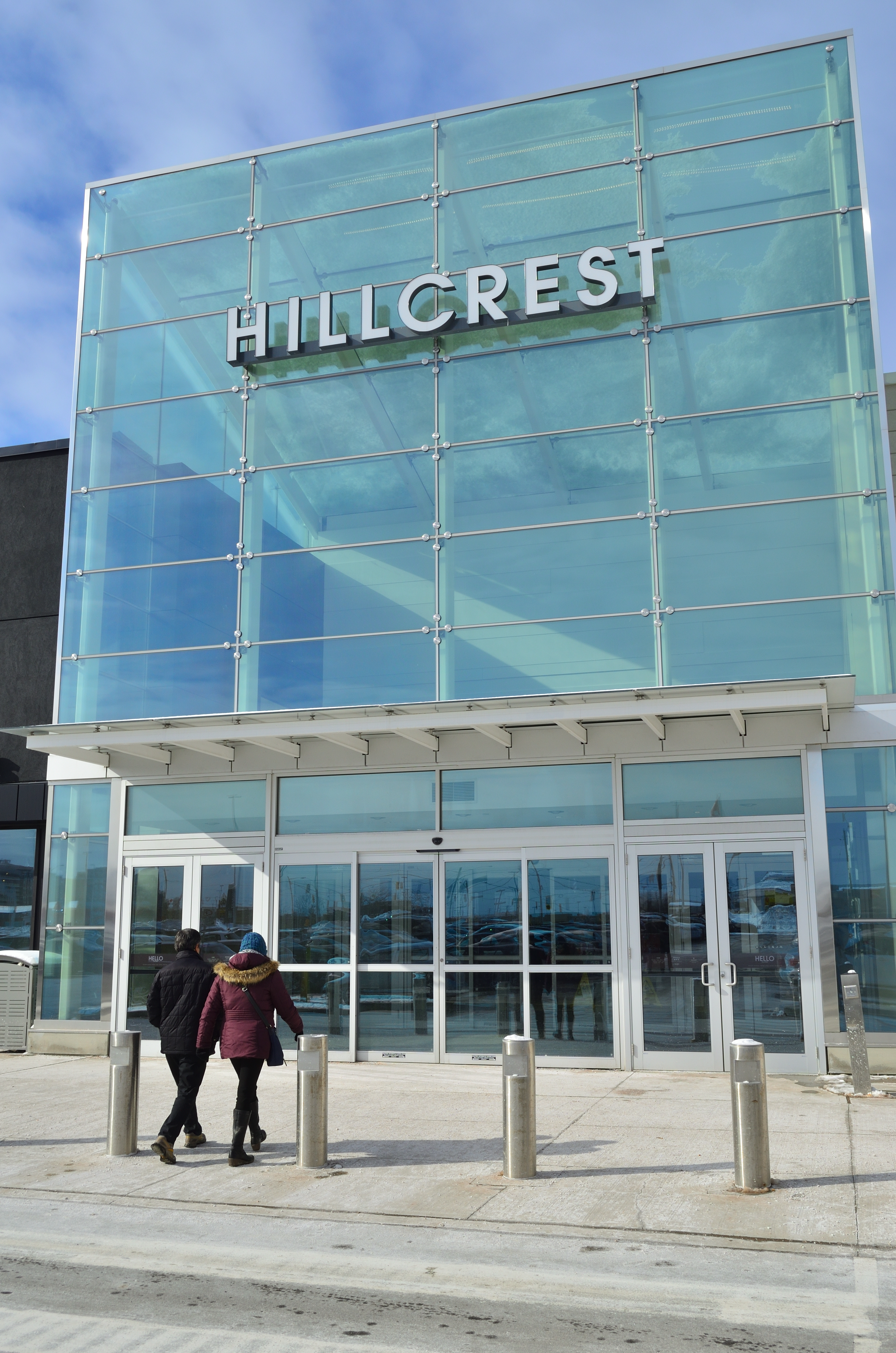 Hillcrest Mall